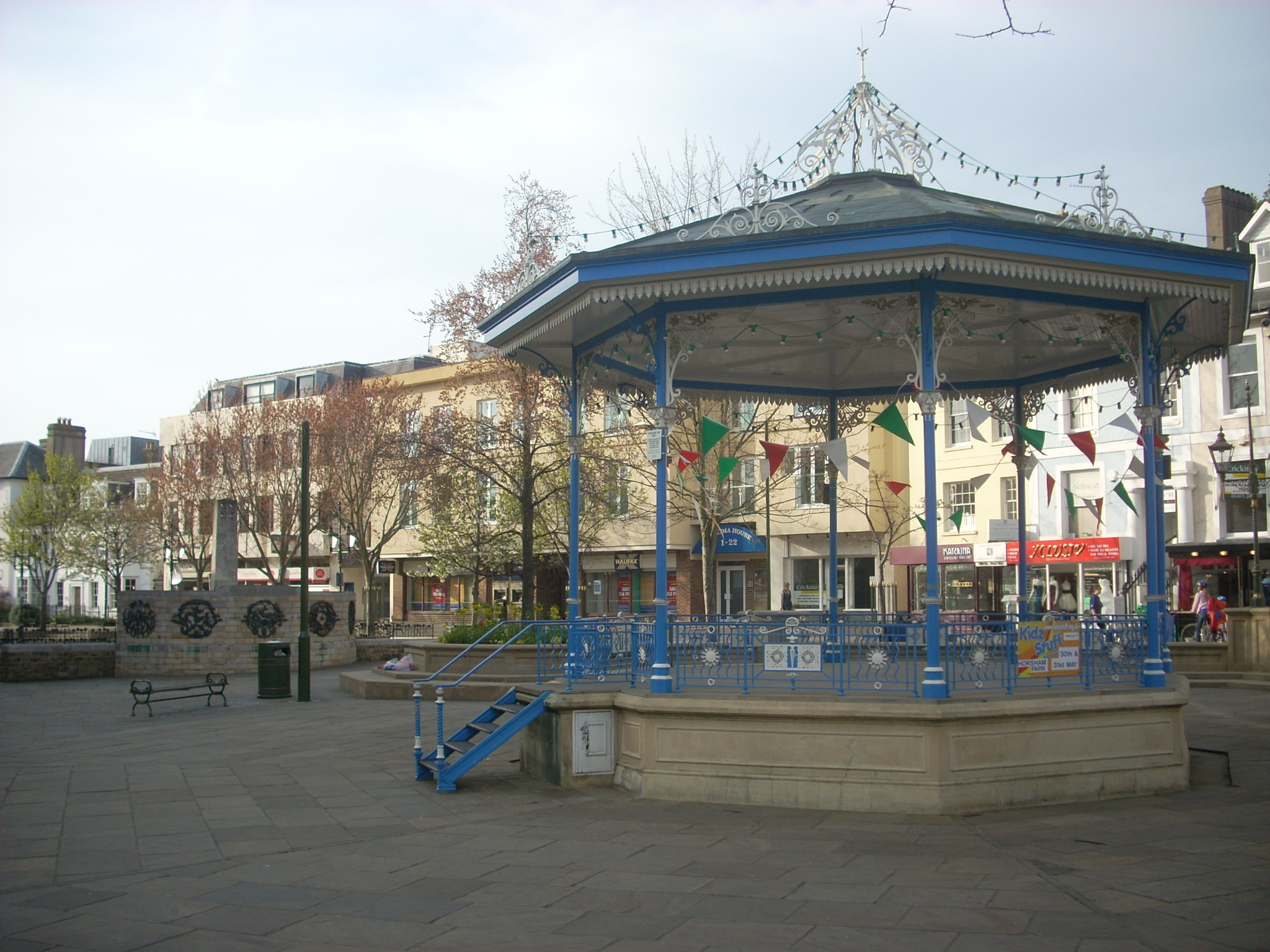 Horsham bandstand and war memorial April 2009.